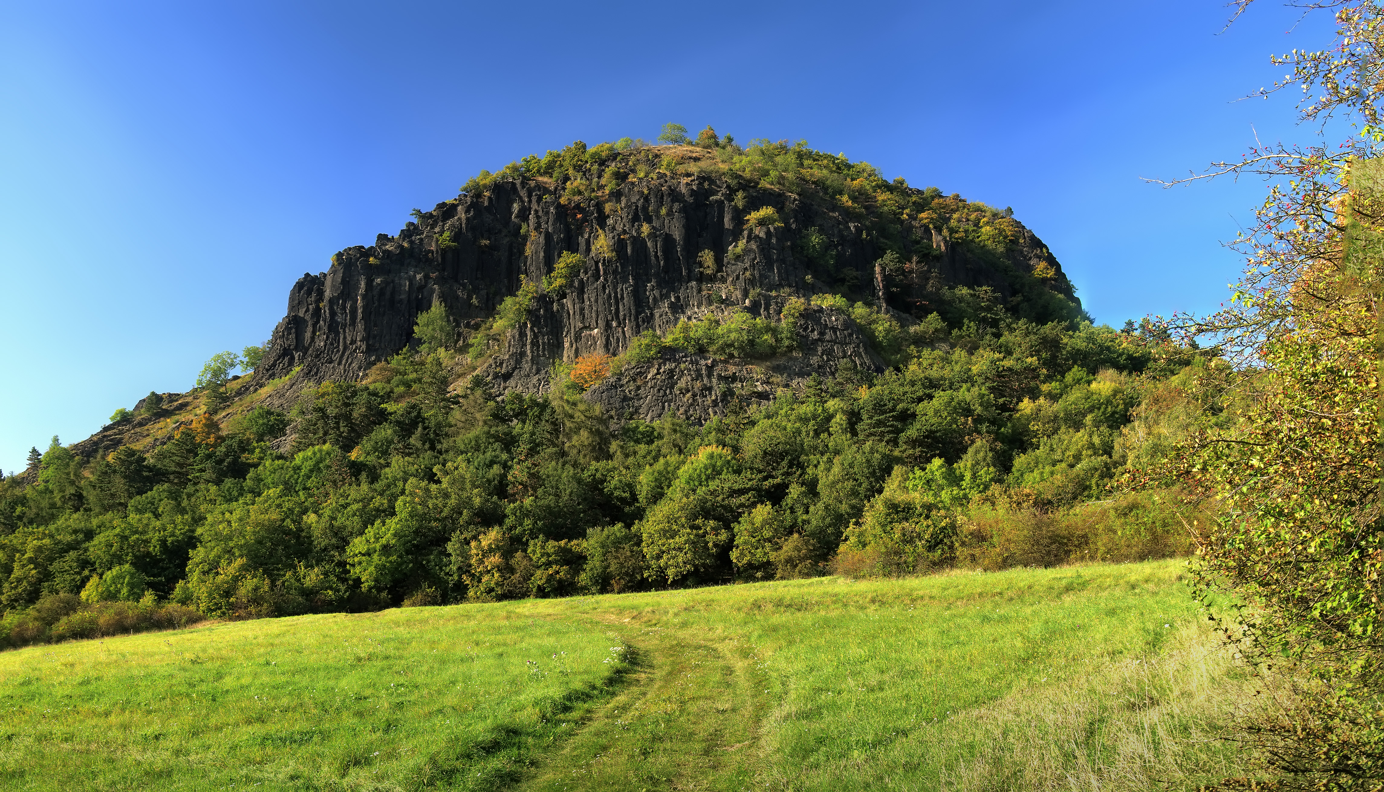 Bořeň (Boren), View from south.